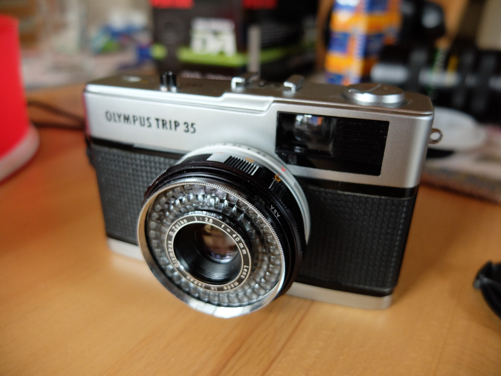 500px provided description: Alte Kompaktkamera f?r Unterwegs. Blogpost dazu: [#Old ,#Camera ,#Trip ,#Olympus]